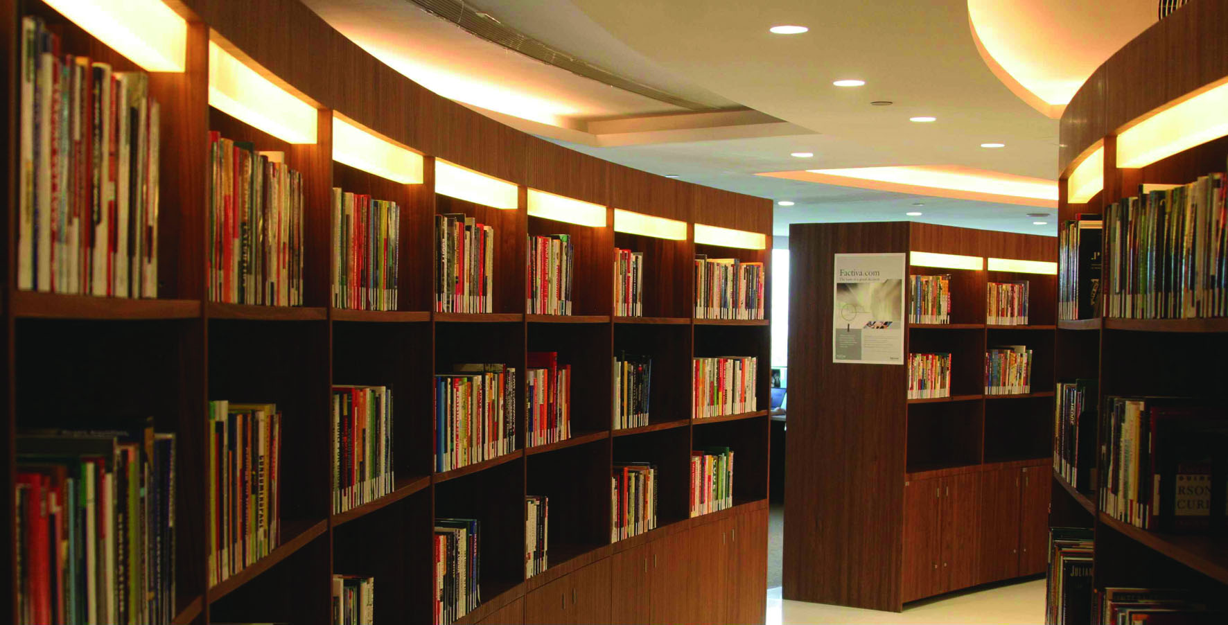 The Library at Cheung Kong GSB Beijing Campus